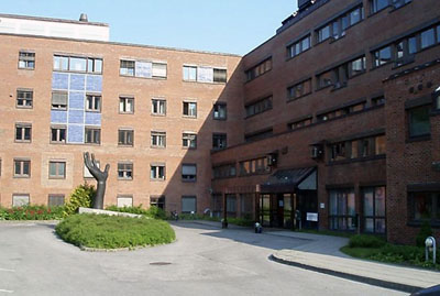 Namsos Hospital, Norway. Main entrance